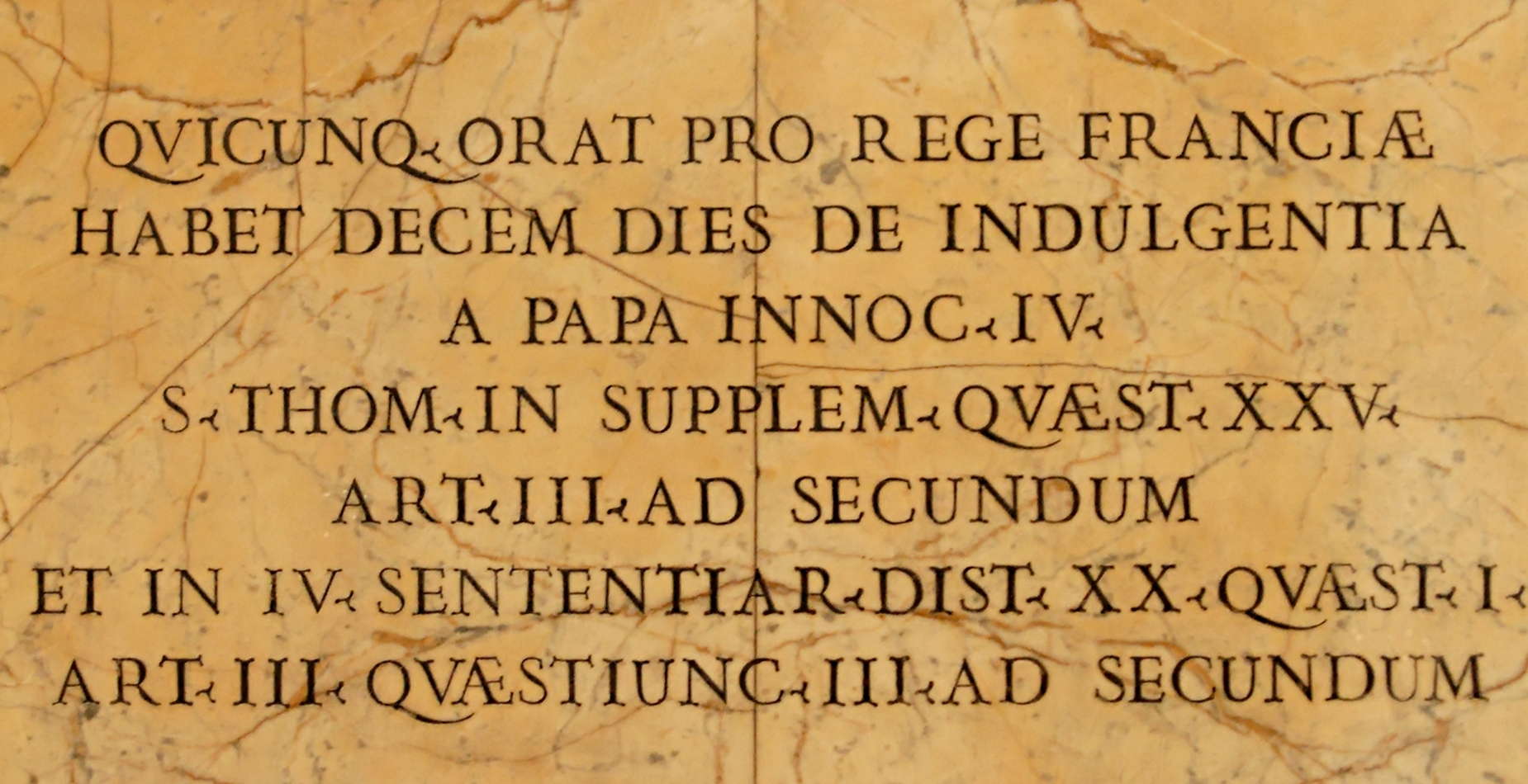 Indulgence in Church San Luigi dei Francesi in Rome: Pope Innoncent IV grants ten days of indulgence to whoever prays for the king of France. Followed by a mention of Thomas de Aquino's Super Sententiis', lib. 4 d. 20 q. 1 a. 3 qc. 3 ad 2.